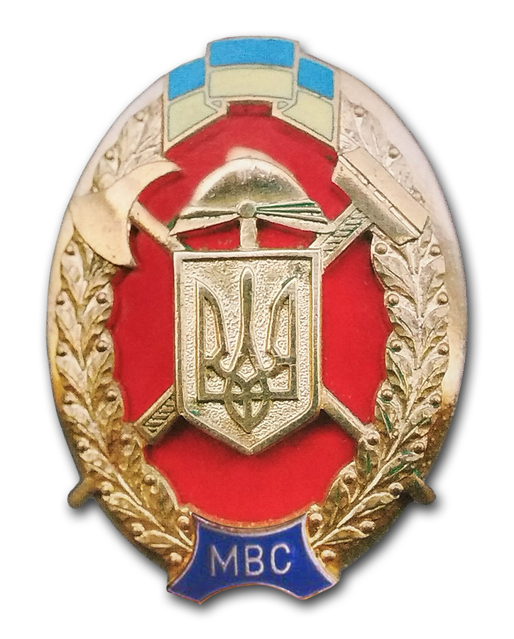 Award of the Ministry of Internal Affairs of Ukraine - Award "The best fire brigade worker" (1995)